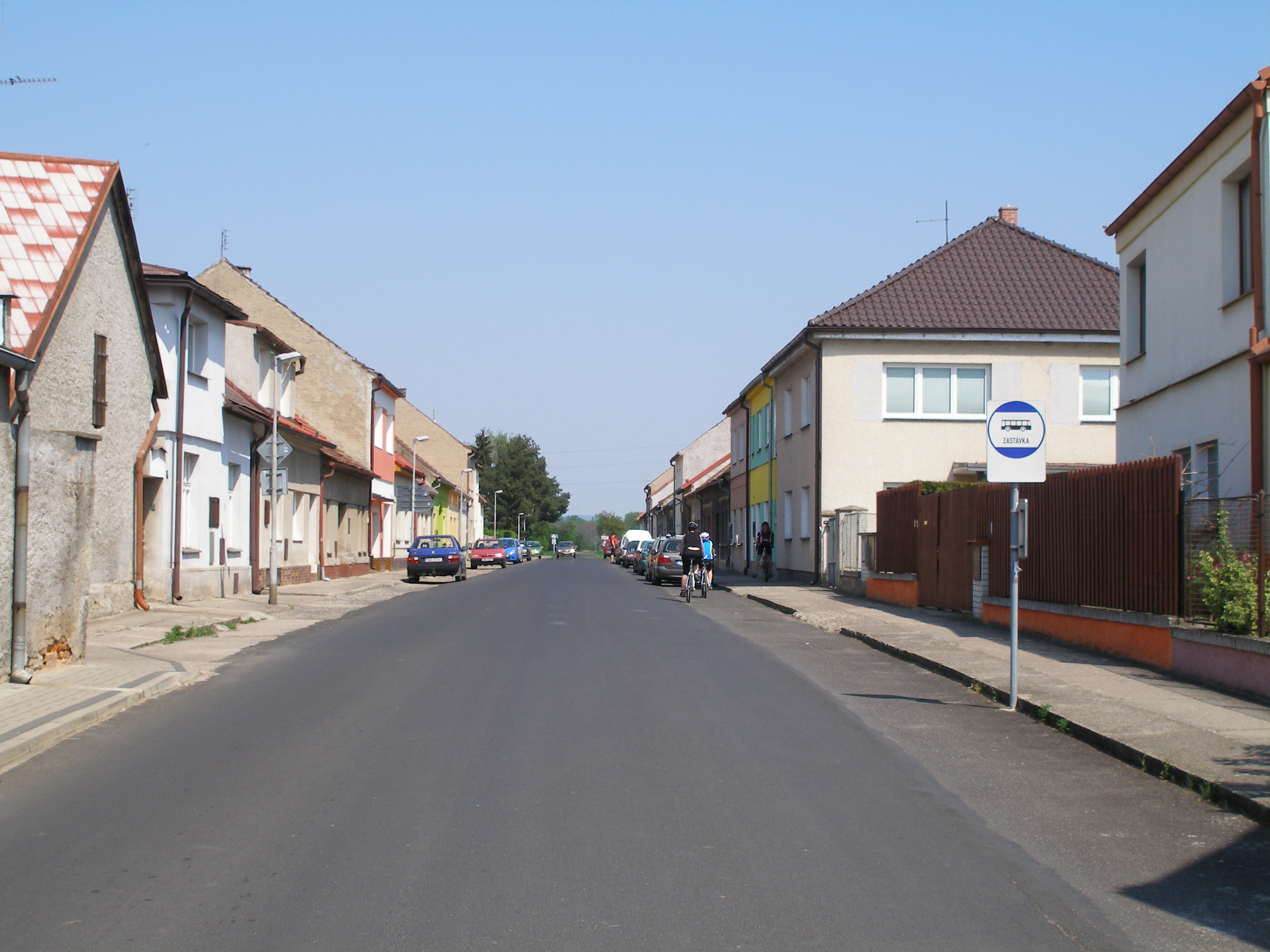 Street in Dobříň.